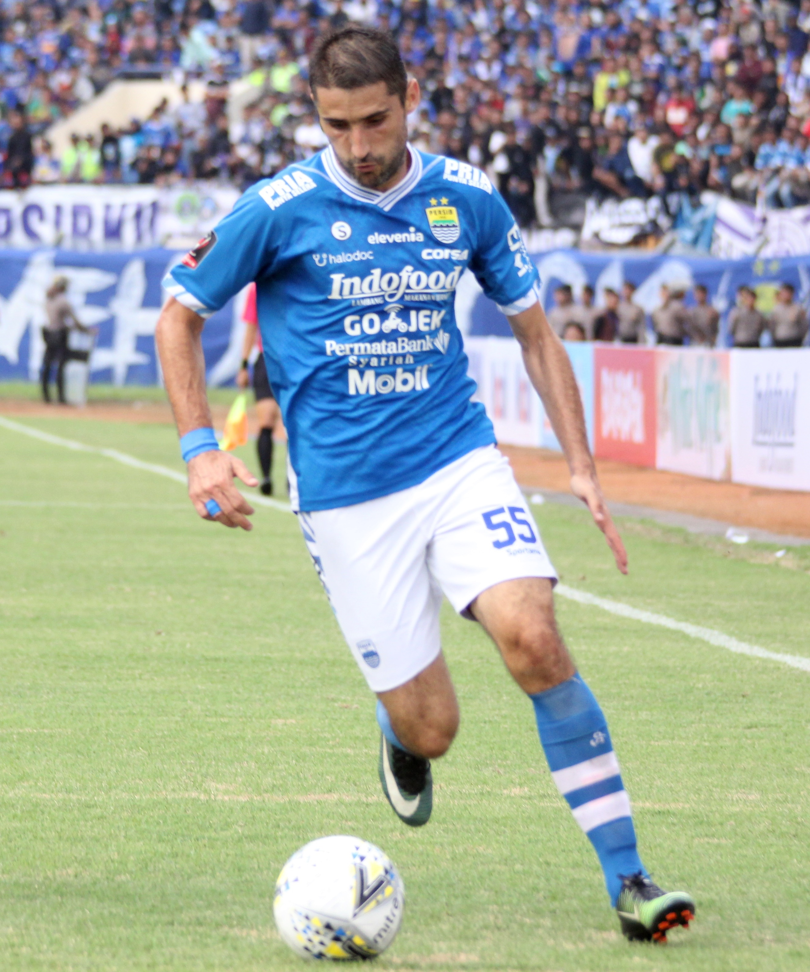 Old Player Srdan Lopicic